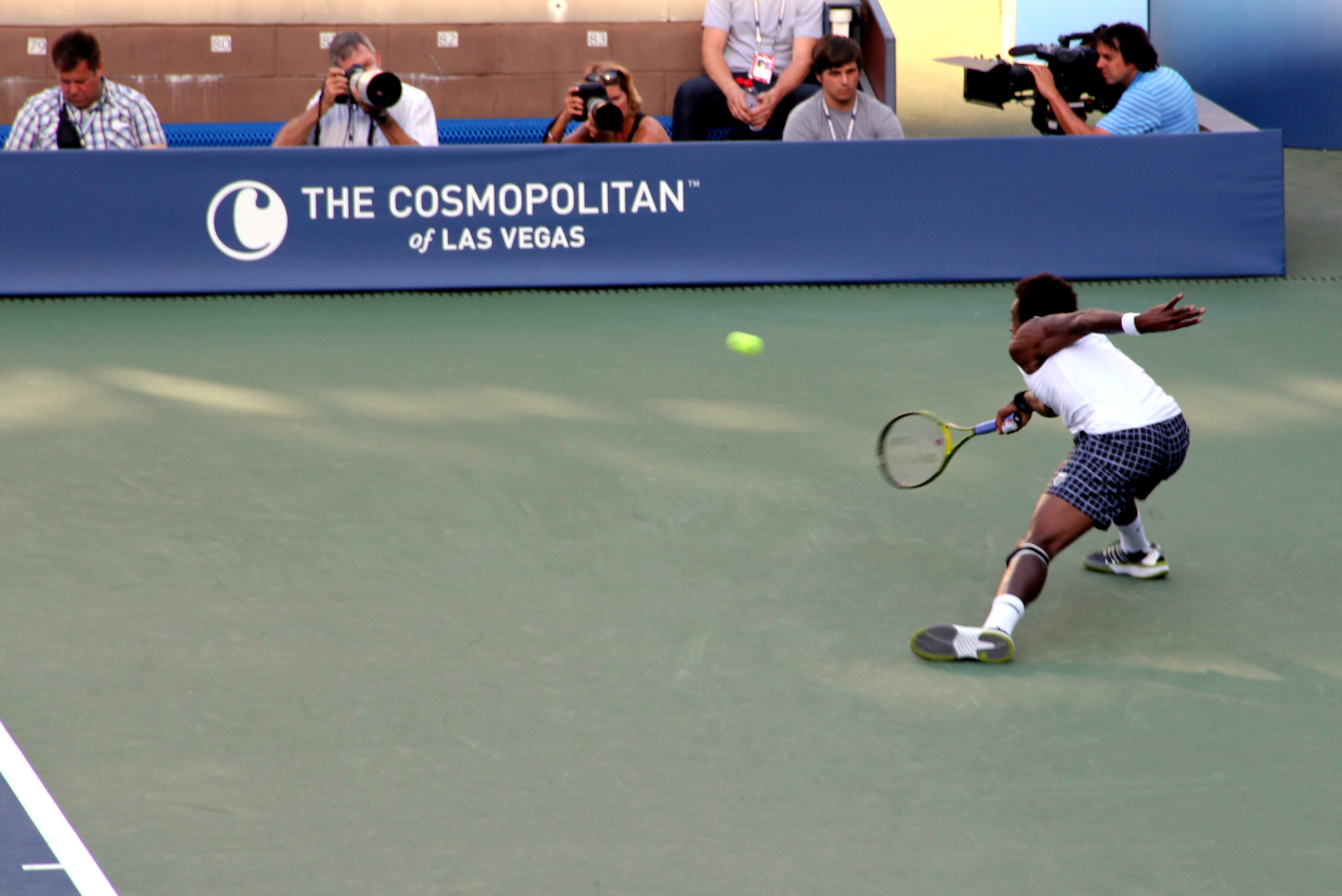 Gael Monfils on Wednesday at the US Open where he lost against Novak Djokovic. The Cosmopolitan is in New York for the 2010 US Open, inviting attendees and guests to experience signature views from our Overlook and in our custom designed suite with prime-stadium seating. For more information on The Cosmopolitan visit